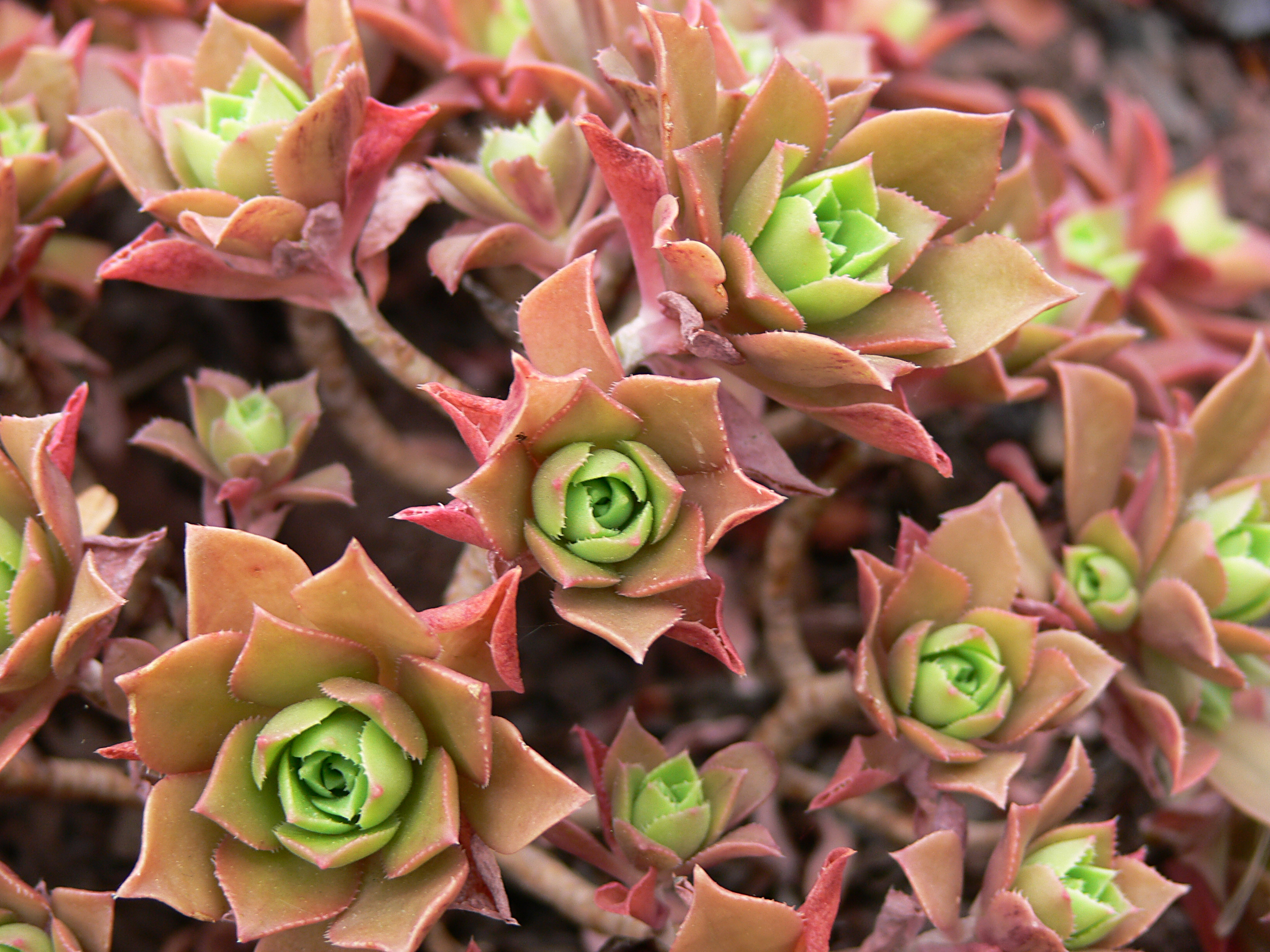 Aeonium decorum (Christ) WEBB ex BOLLE, Crassulaceae, native to the Canary Islands, Botanical Garden Krefeld, Germany